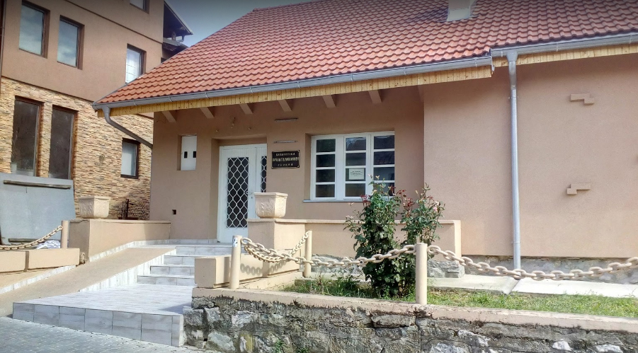 "Ilija Garašanin" library in Grocka (Serbia) - Restored library building in Gročanska čaršija, protected cultural and historical heritage